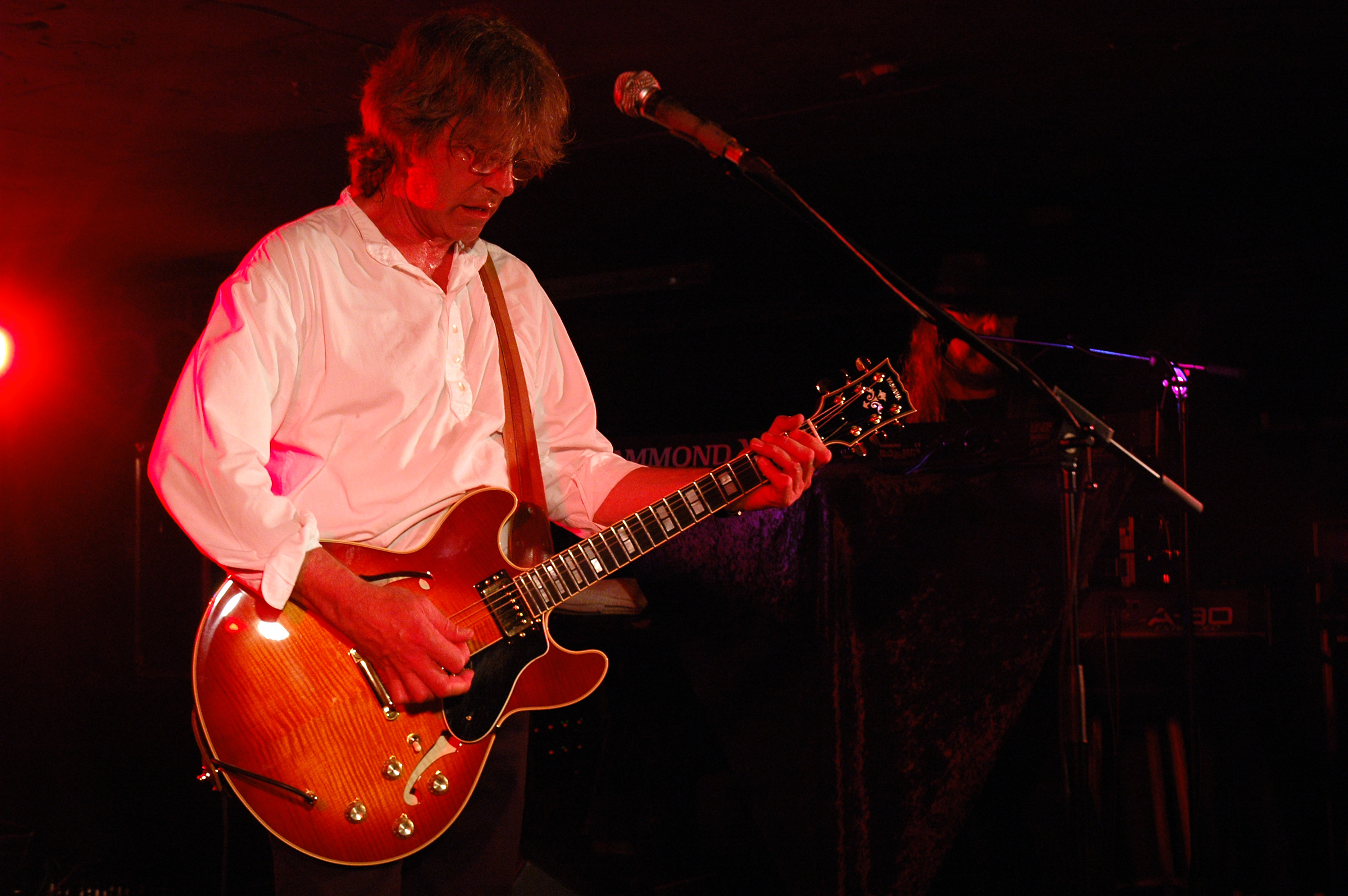 Roye Albrighton with Nektar. Concert 21.09.2007 in Karlsruhe, Germany.